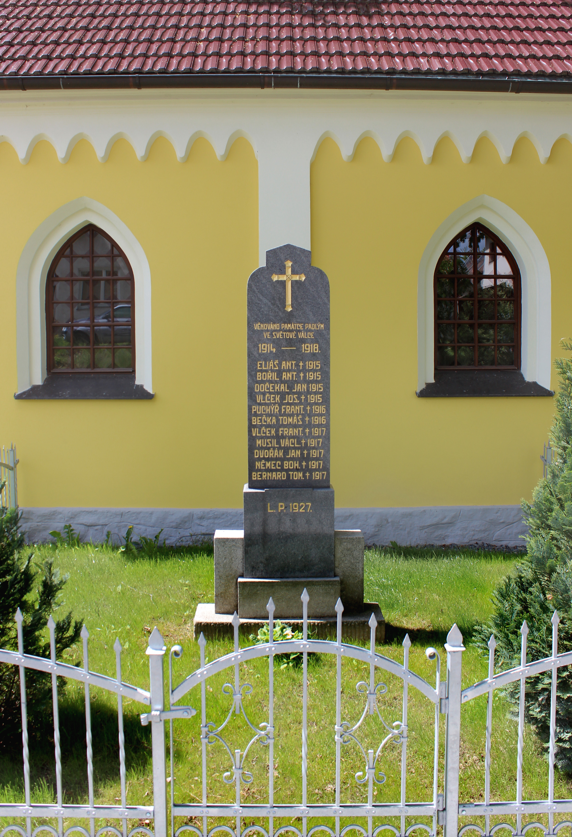 World War I Memorial in Olešenka, Czech Republic